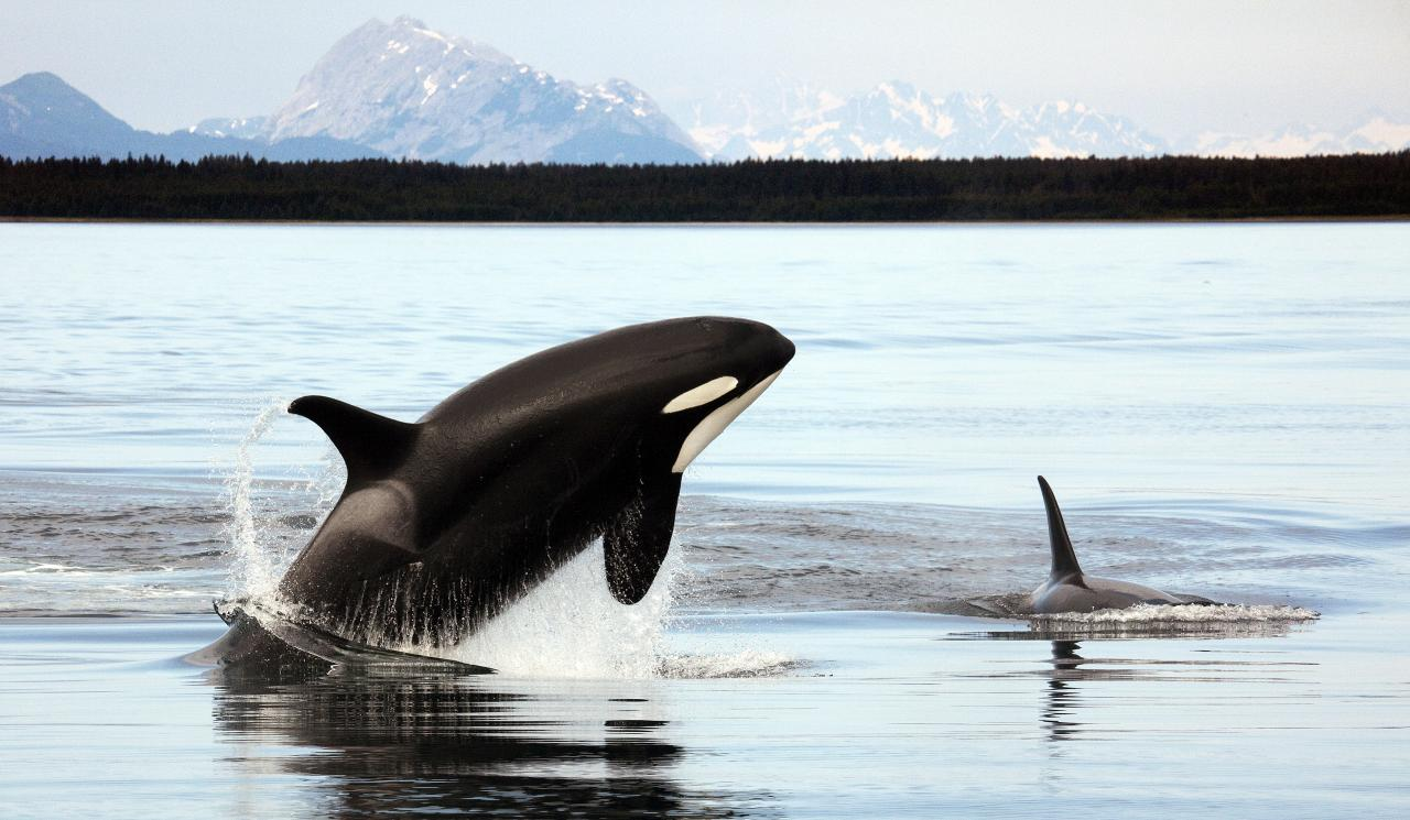 orcas & humpbacks